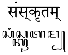 Sanskrit in Devanagari and Javanese